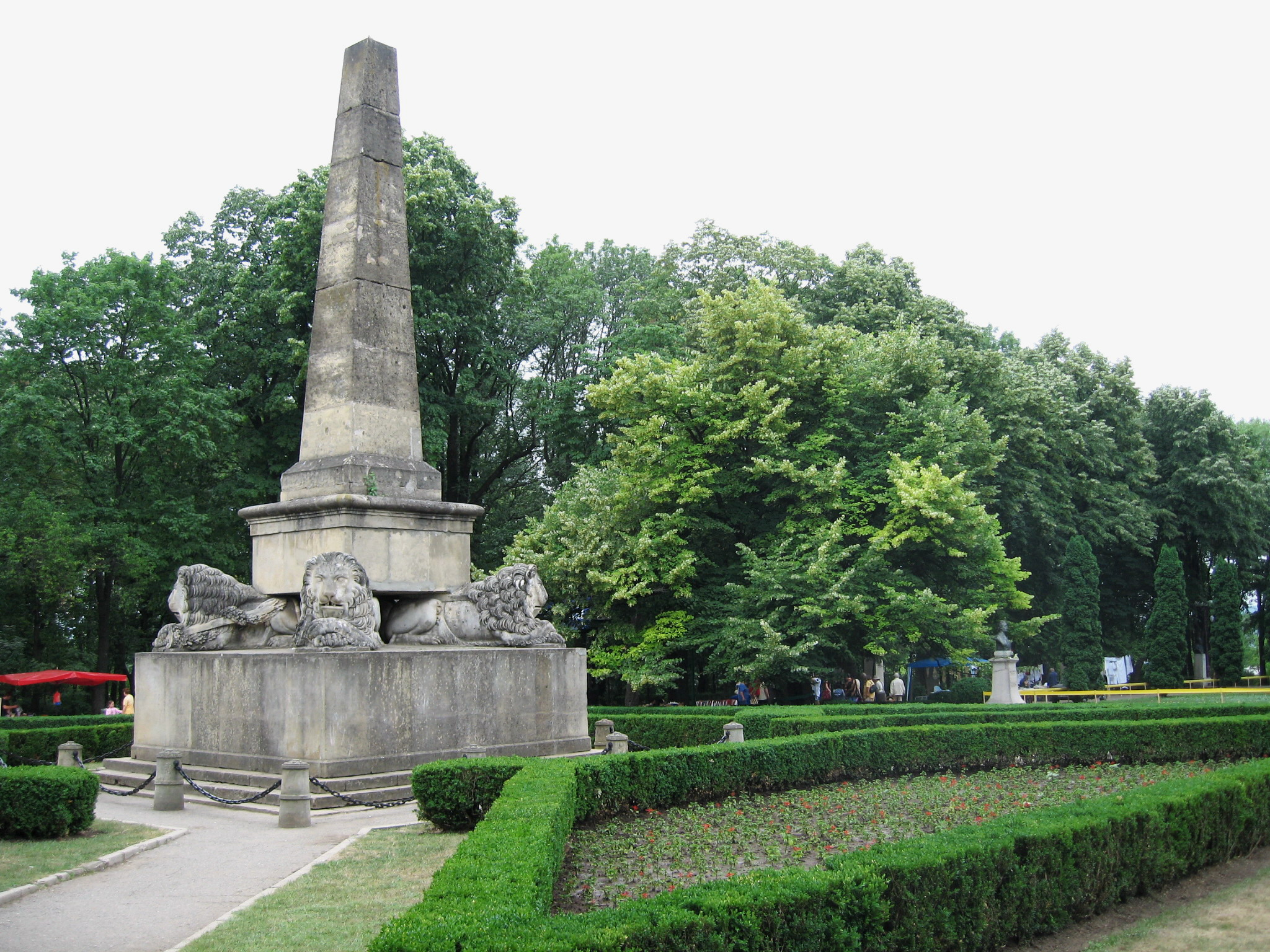 Obeliscul Leilor din Iaşi